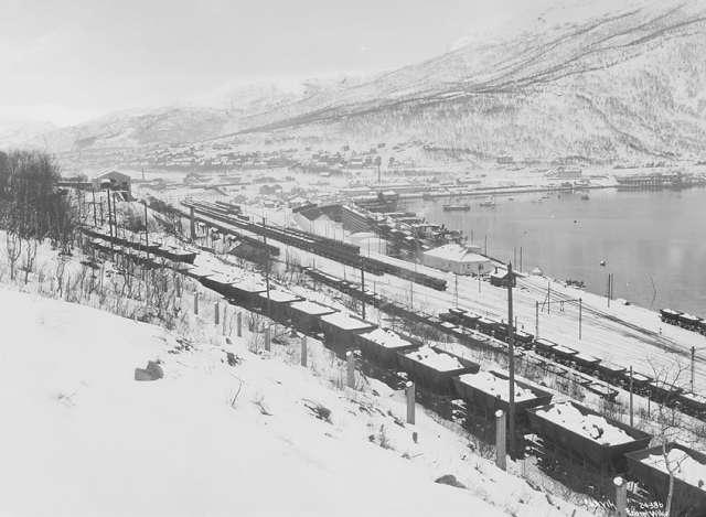 Port of Narvik, with ore trains from Sweden on Ofotbanen; Norway.